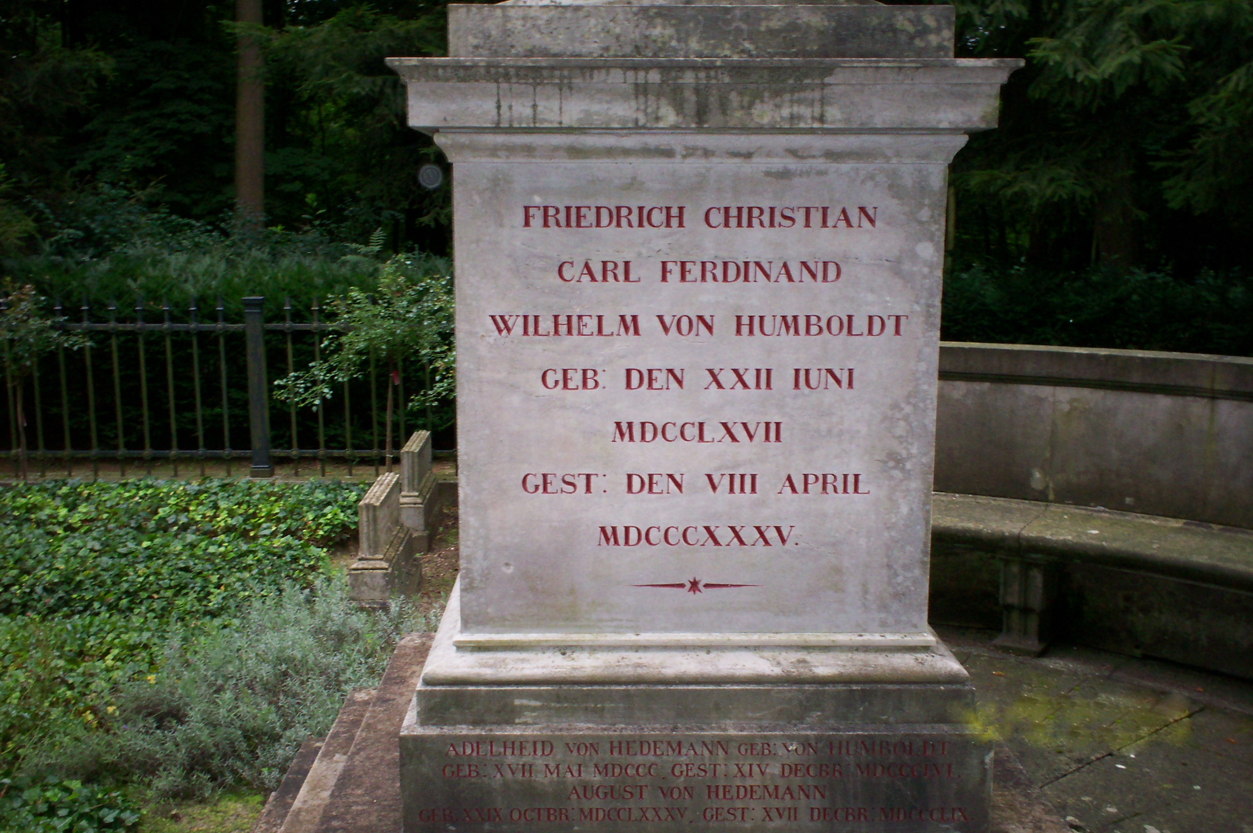 Grave column with Spes sculpture for Caroline and Wilhelm von Humboldt on the Campo Santo in Tegel Palace Park: Inscription on the right side as seen from the front for Wilhelm von Humboldt (1767–1835); Adelheid von Humboldt, married von Hedemann (1800–1856), Caroline's and Wilhelm's daughter; August von Hedemann, Pruss. general (1785–1859)